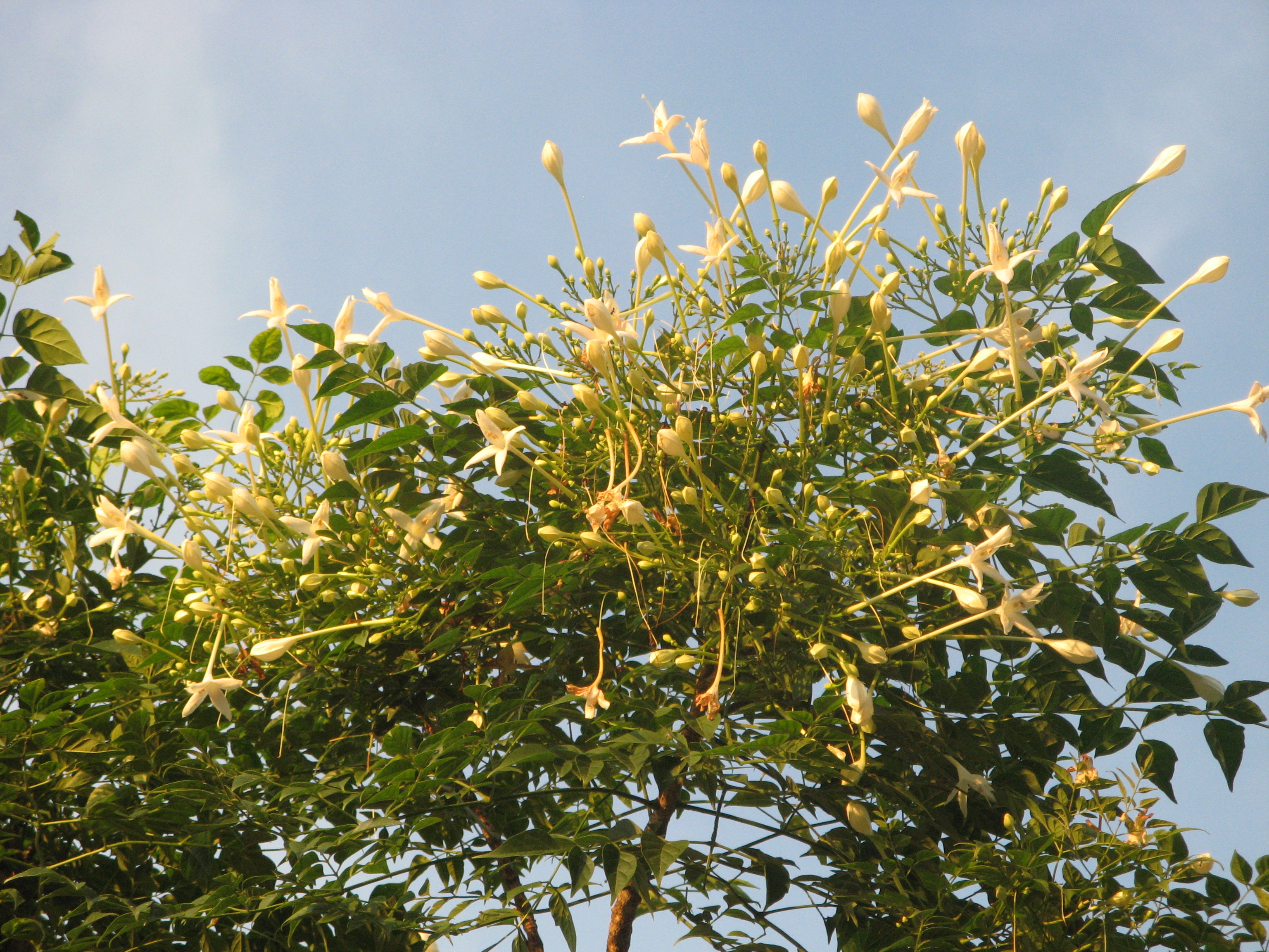 Millingtonia hortensis